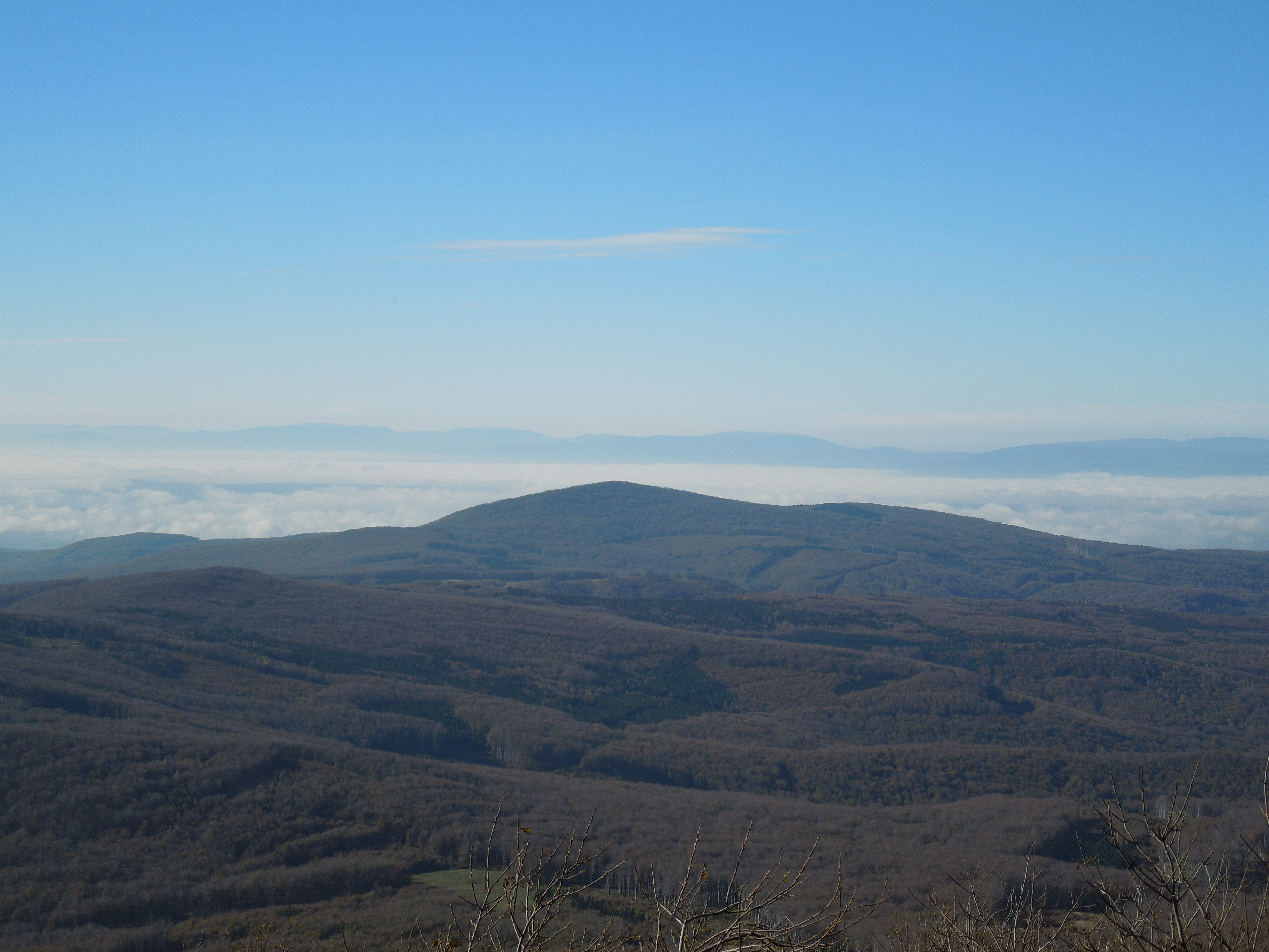 View on Kyjov from the peak of Vihorlat This is a photography of Natura 2000 protected area with ID SKUEV0025